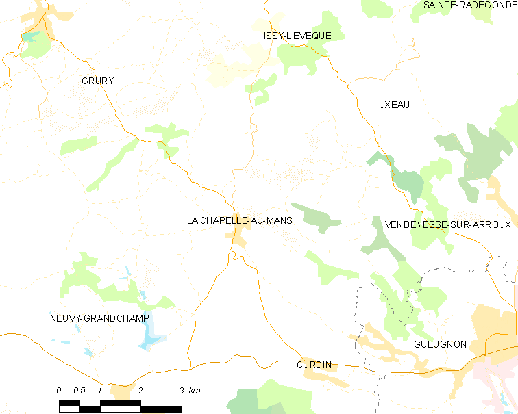 Map of French municipality